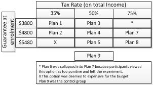 Mincome experimental design - adapted from Mincome documentation